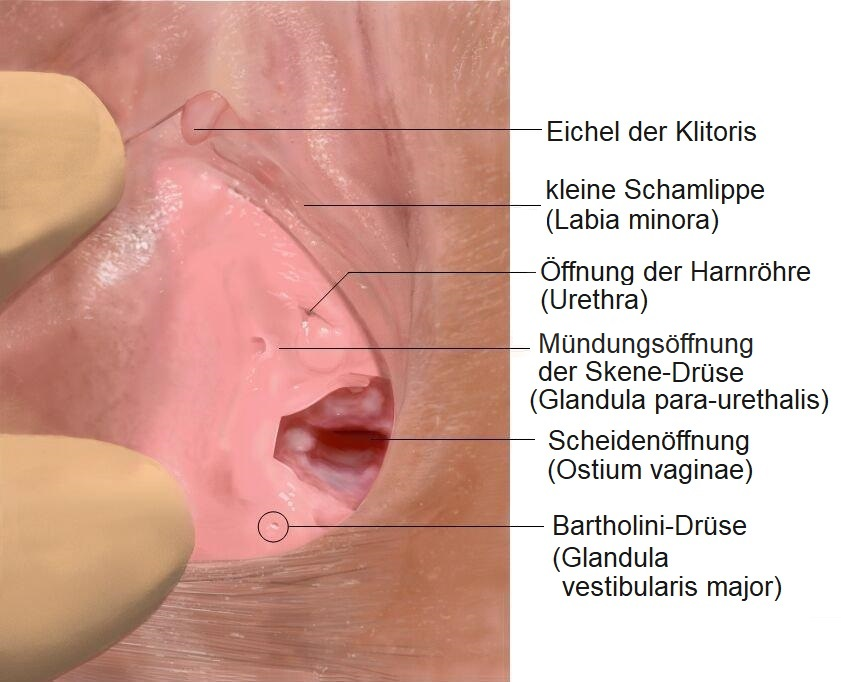 Skenes and Bartholin's glands. German translation of image uploaded to en-wikipedia.